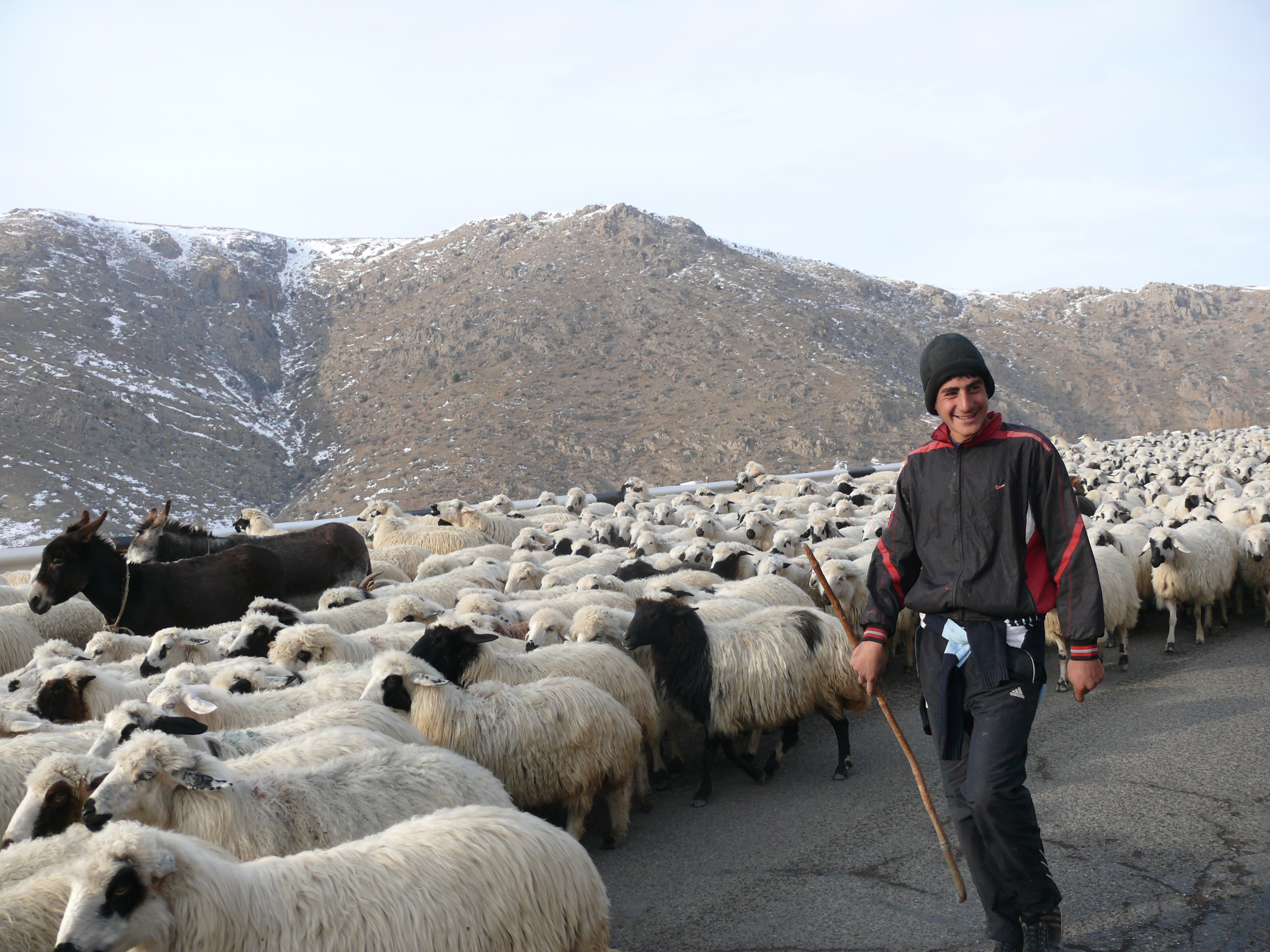 A man moves his family’s sheep herd down from the mountains for the winter. These sheep are one of many herds of sheep and cattle that will pass by the FVSC on their seasonal herd movements around Armenia and benefit from the center. Photo credit: Elizabeth Leonardi (USDA/FAS) and Gocha Shainidze (USDA/FAS Georgia)